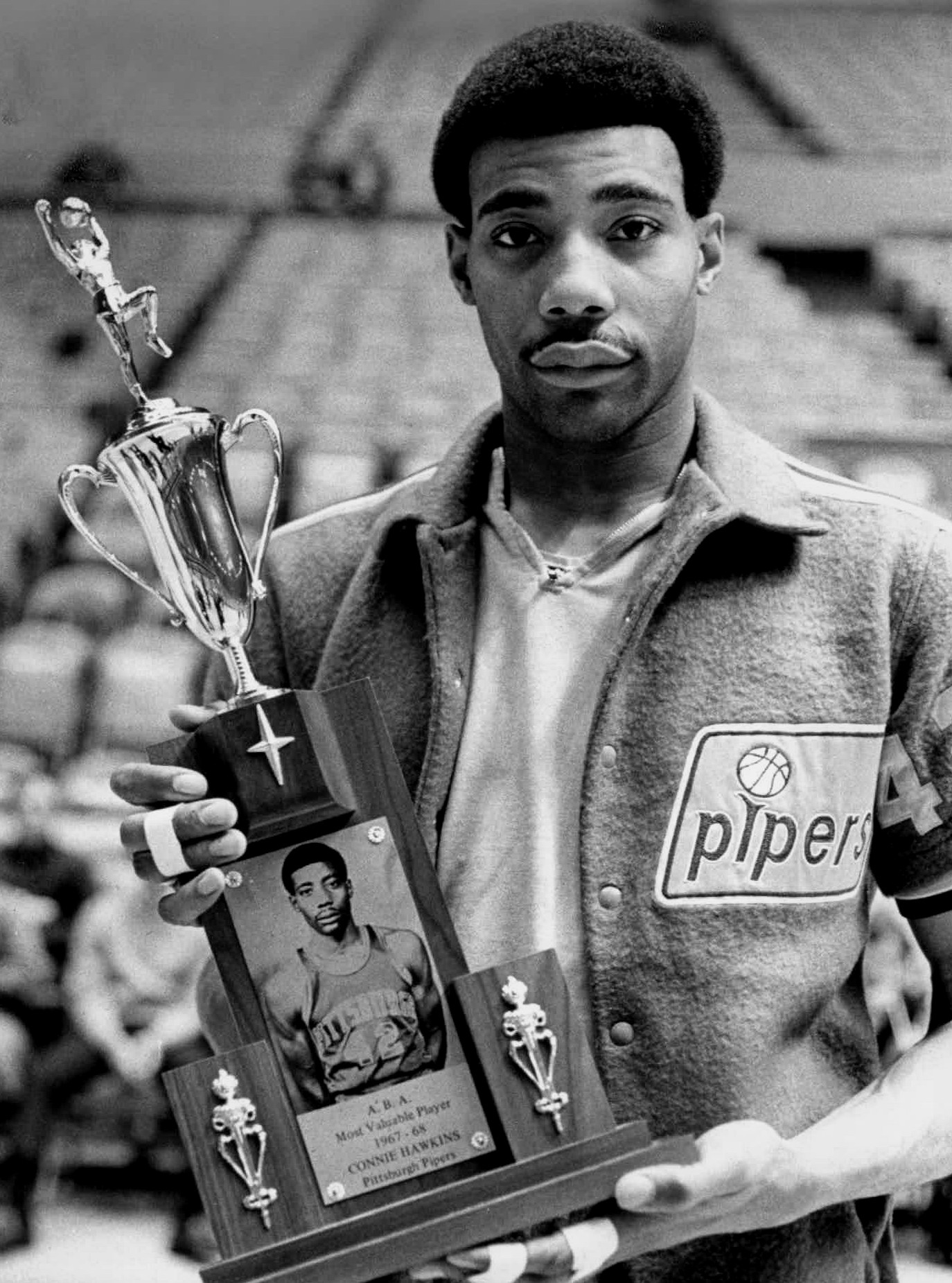 Professional basketball player Connie Hawkins with the American Basketball Association Most Valuble Player Award for the 1967–68 season.